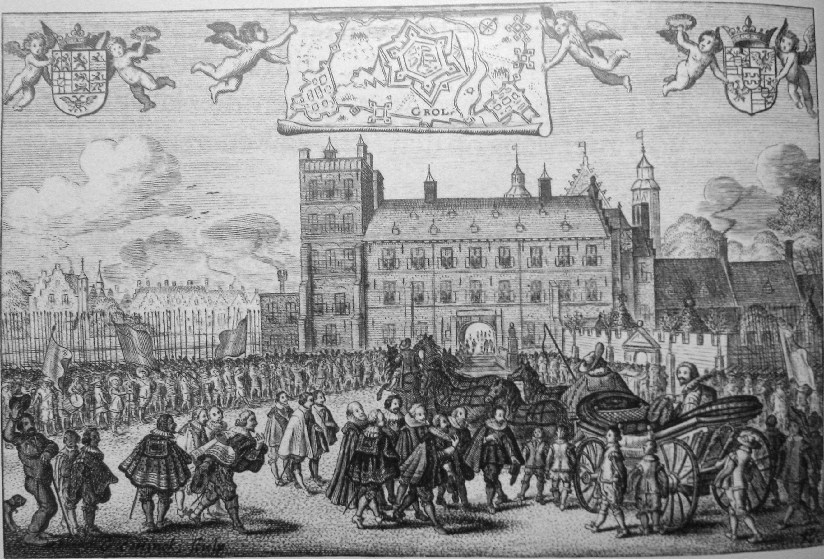 Copper engraving of the festive reception of Frederick Henry in the Hague on october 2, after the successful siege of Grol (Groenlo) in 1627.